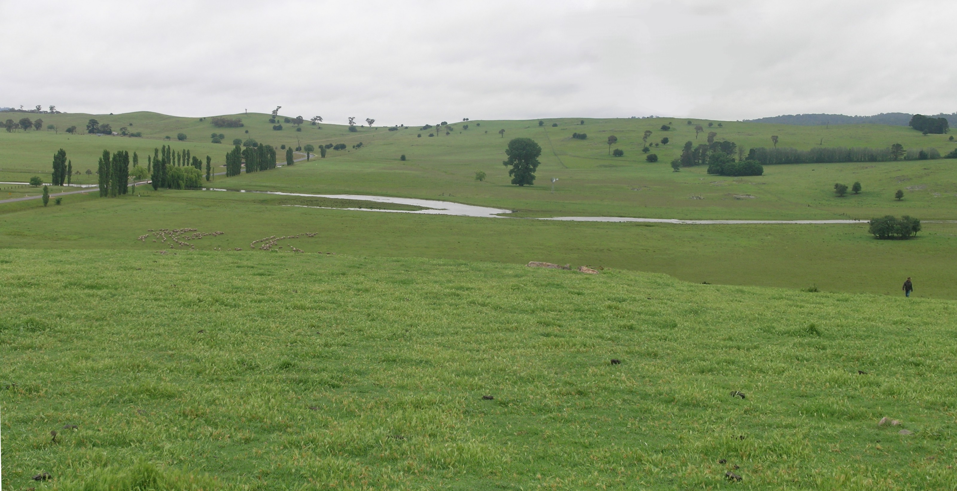 Prime livestock grazing area, Bergen-op-Zoom Creek, Irish Town, Walcha, NSW.